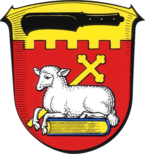 Coat of arms of Niederwallmenach